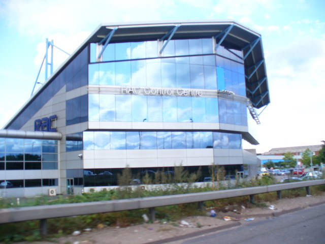 RAC Control Centre Glass-fronted nerve centre of the Royal Automobile Club on the M6 just north of its junction with the M5.